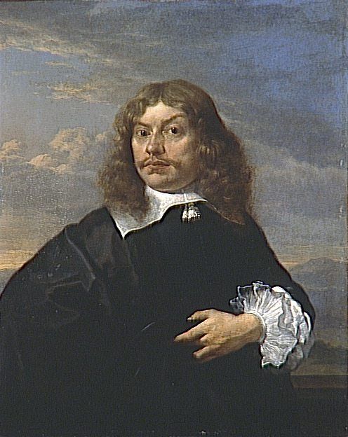 Possibly Self-portrait